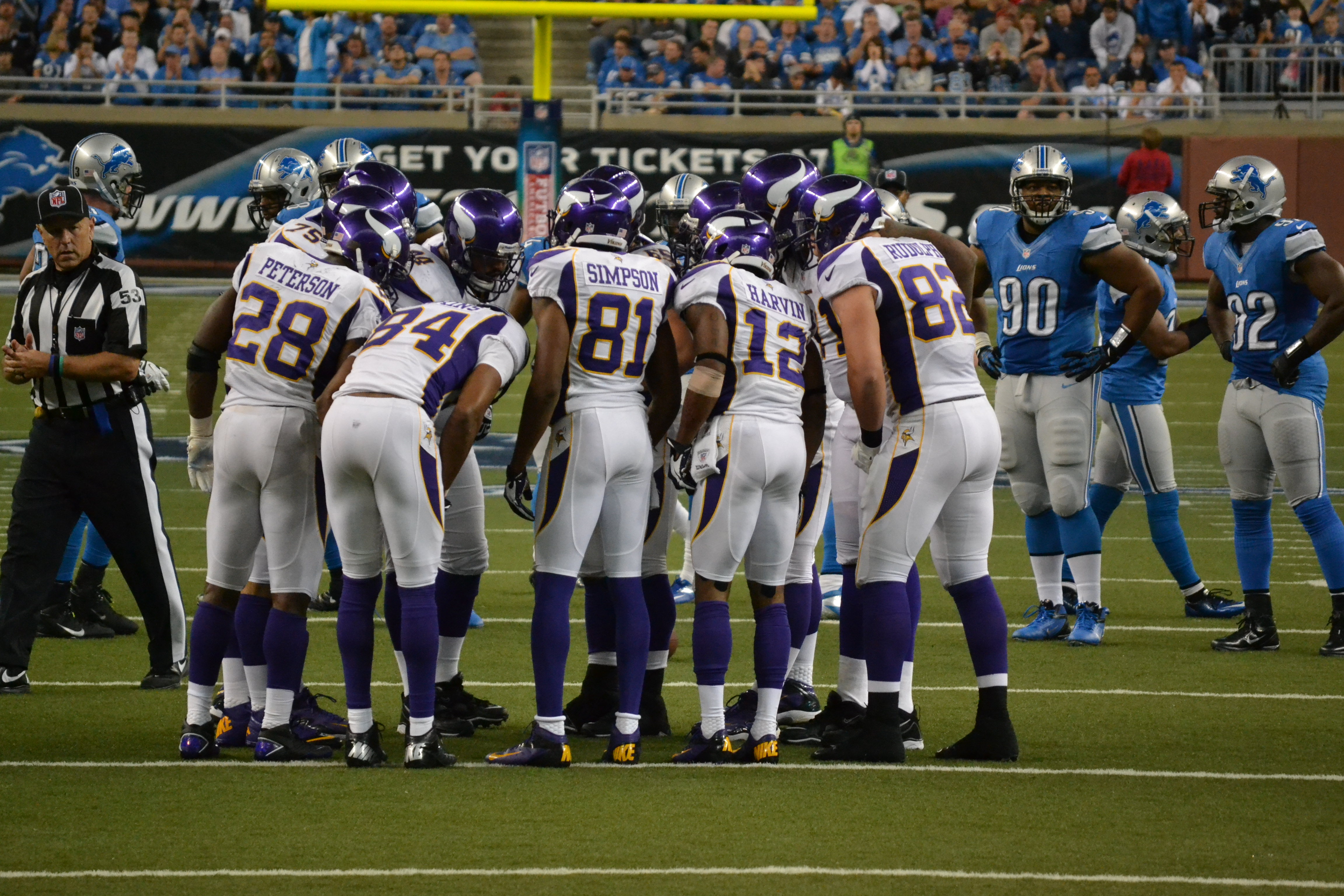 The Minnesota Vikings offense in a huddle.jpg